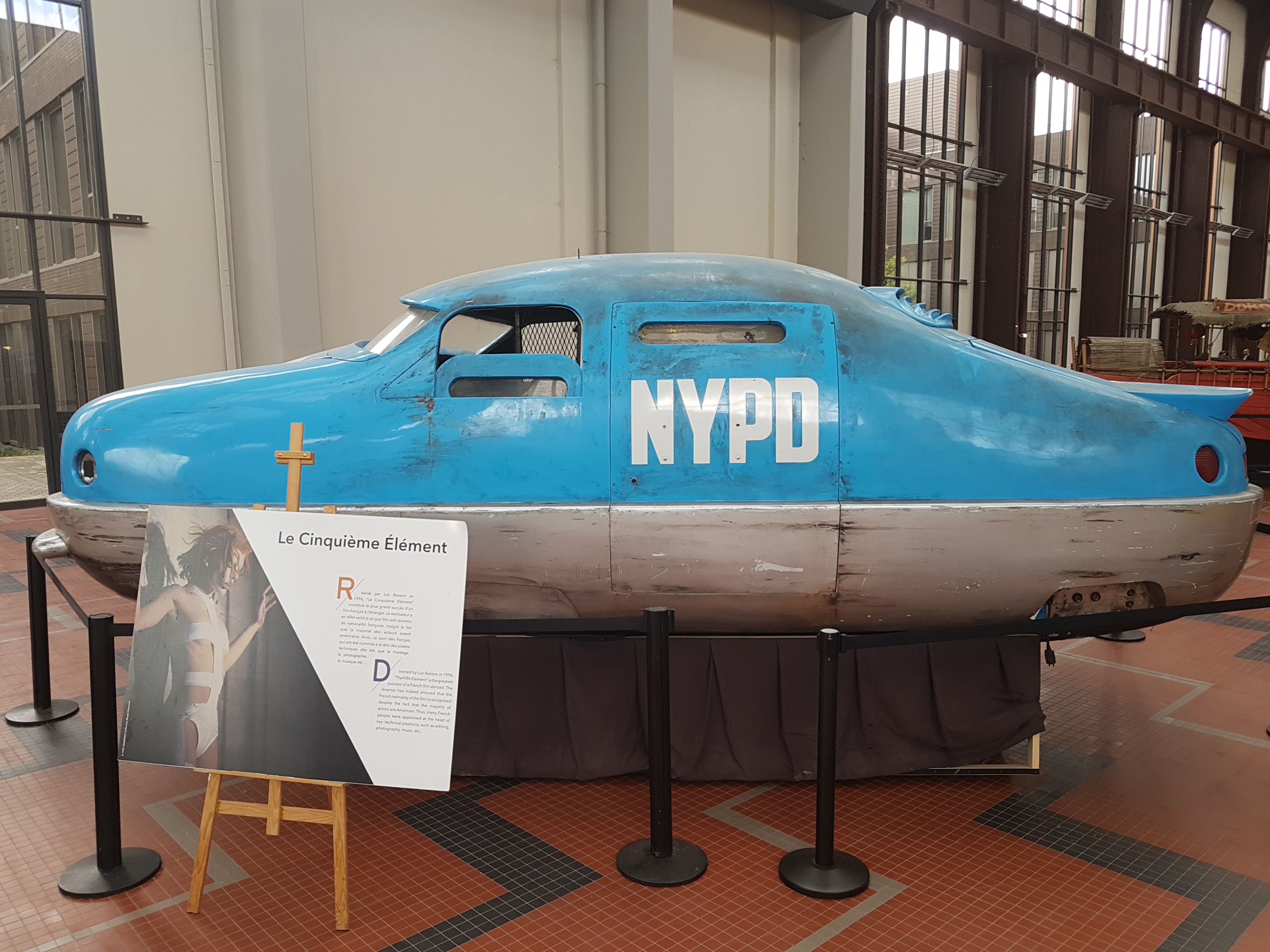 French Cinema has cars of the The Fifth Element movie on display in Paris for 20th Anniversary